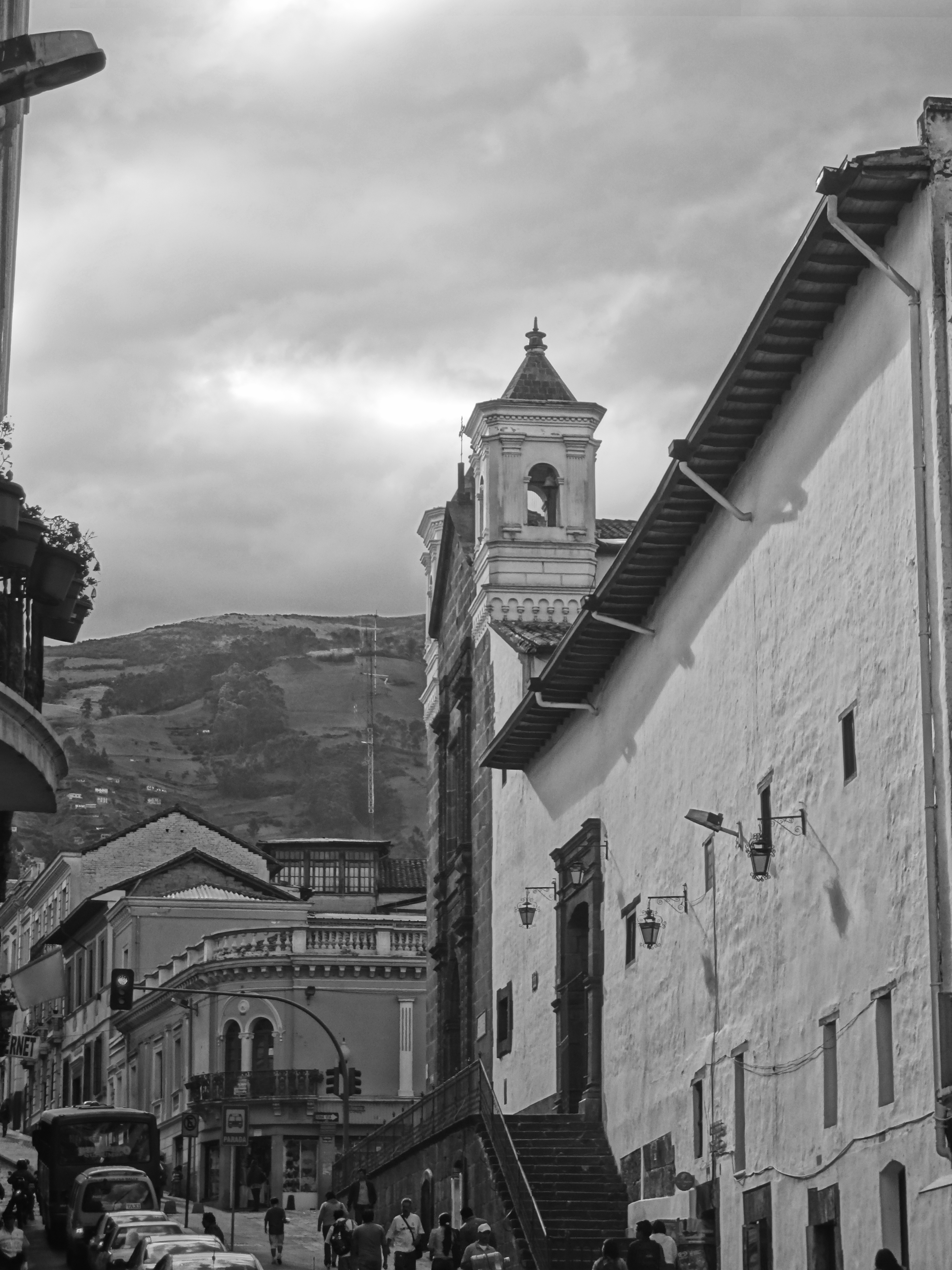 A street in the Historic Center of Quito with a view of Pichincha is an active stratovolcano in the country of Ecuador, whose capital Quito wraps around its eastern slopes. The mountain's two highest peaks are the Guagua (4,784 metres (15,696 ft)), which means "child" in Quechua and the Rucu (4,698 metres (15,413 ft)), which means "old person". The active caldera is in the Guagua, on the western side of the mountain Monasterio del Carmen Bajo is the church in the photo